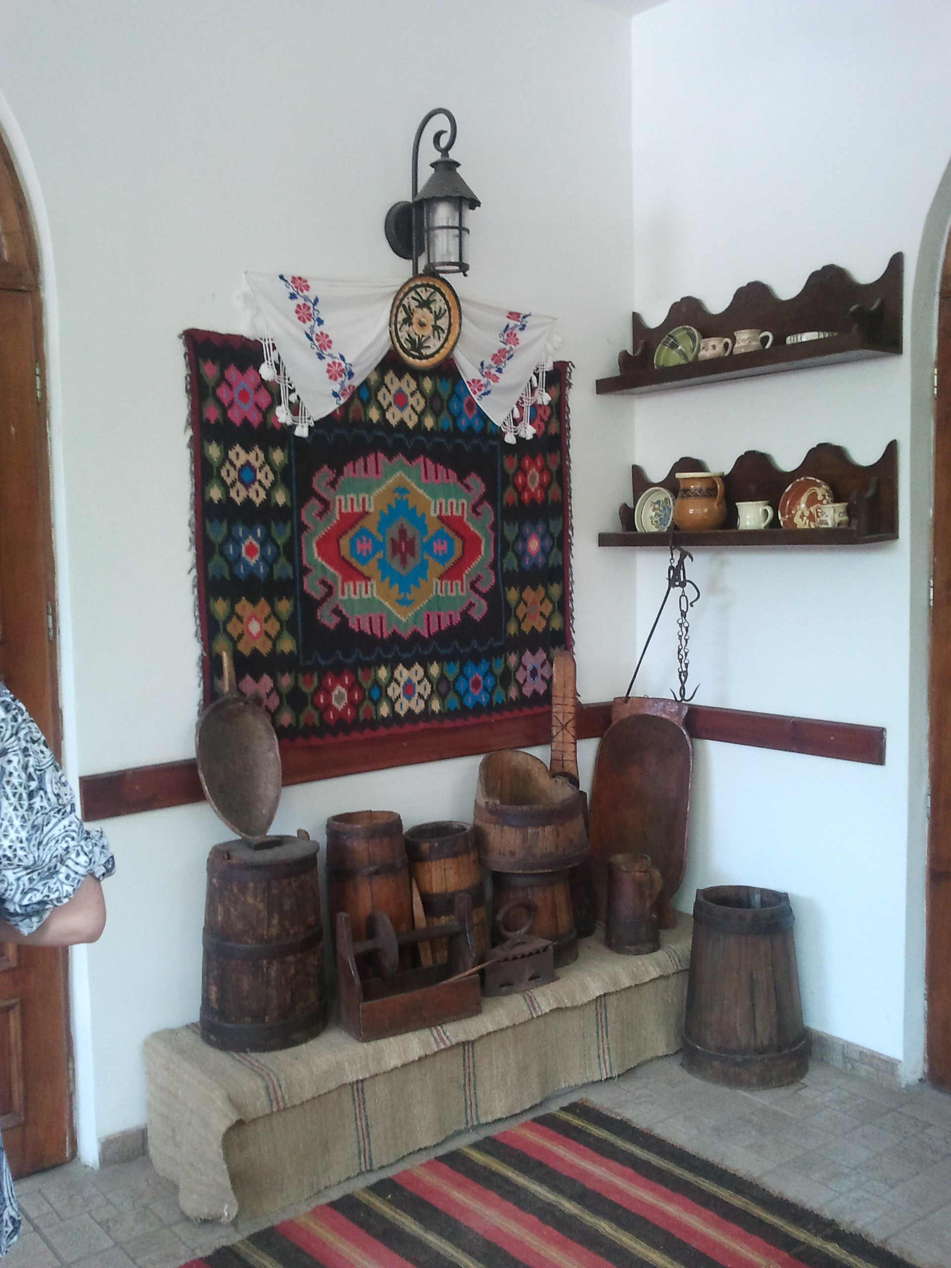 Parcul Tematic "Ion Creangă"